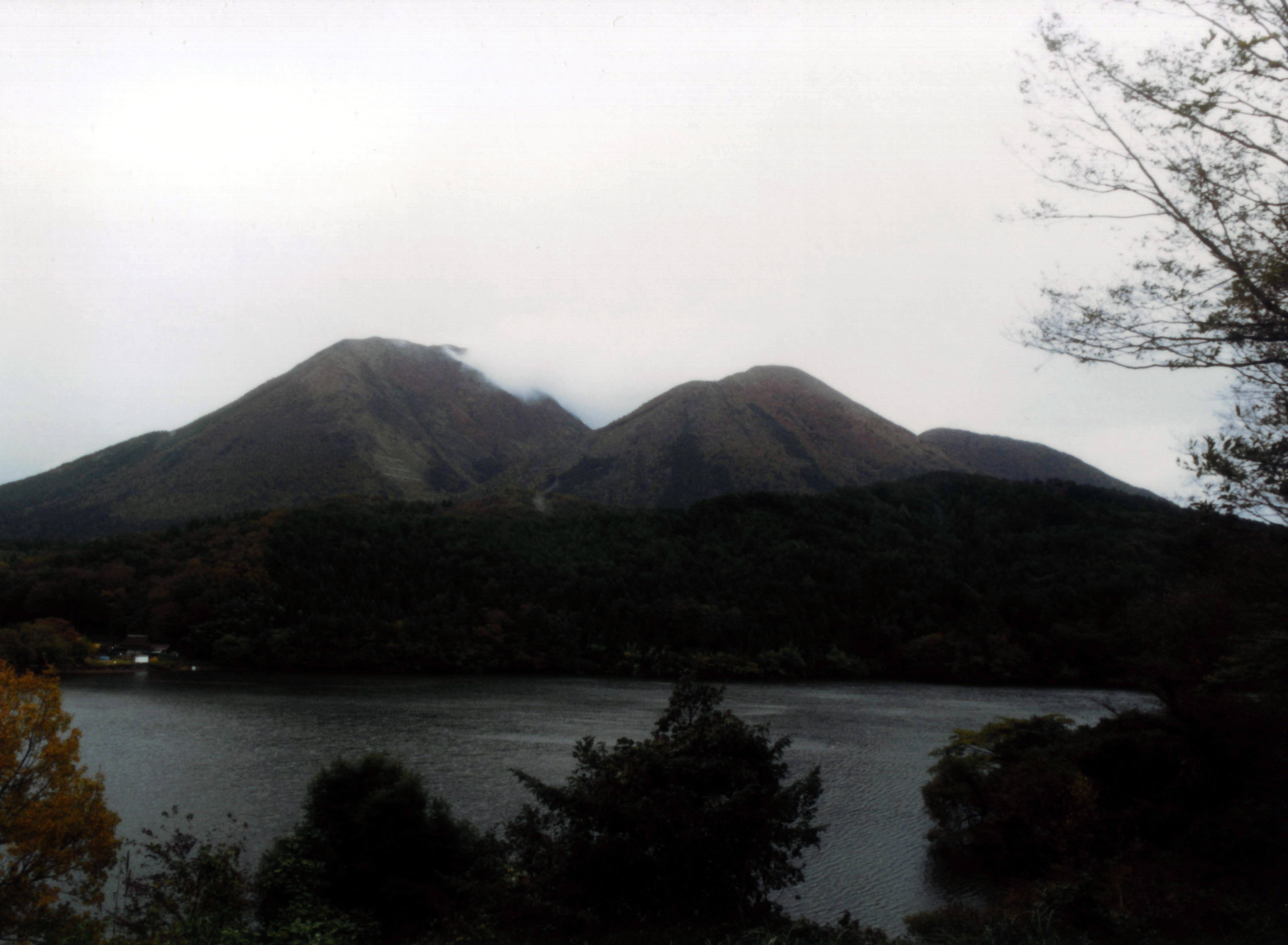 Mount Sanbe and Ukinuno-no-ike pond. Mt. Sanbe(Sanbesan) is the volcano in Oda, Shimane, Japan.